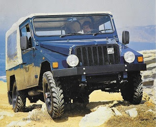 UMM 4x4 Cournil